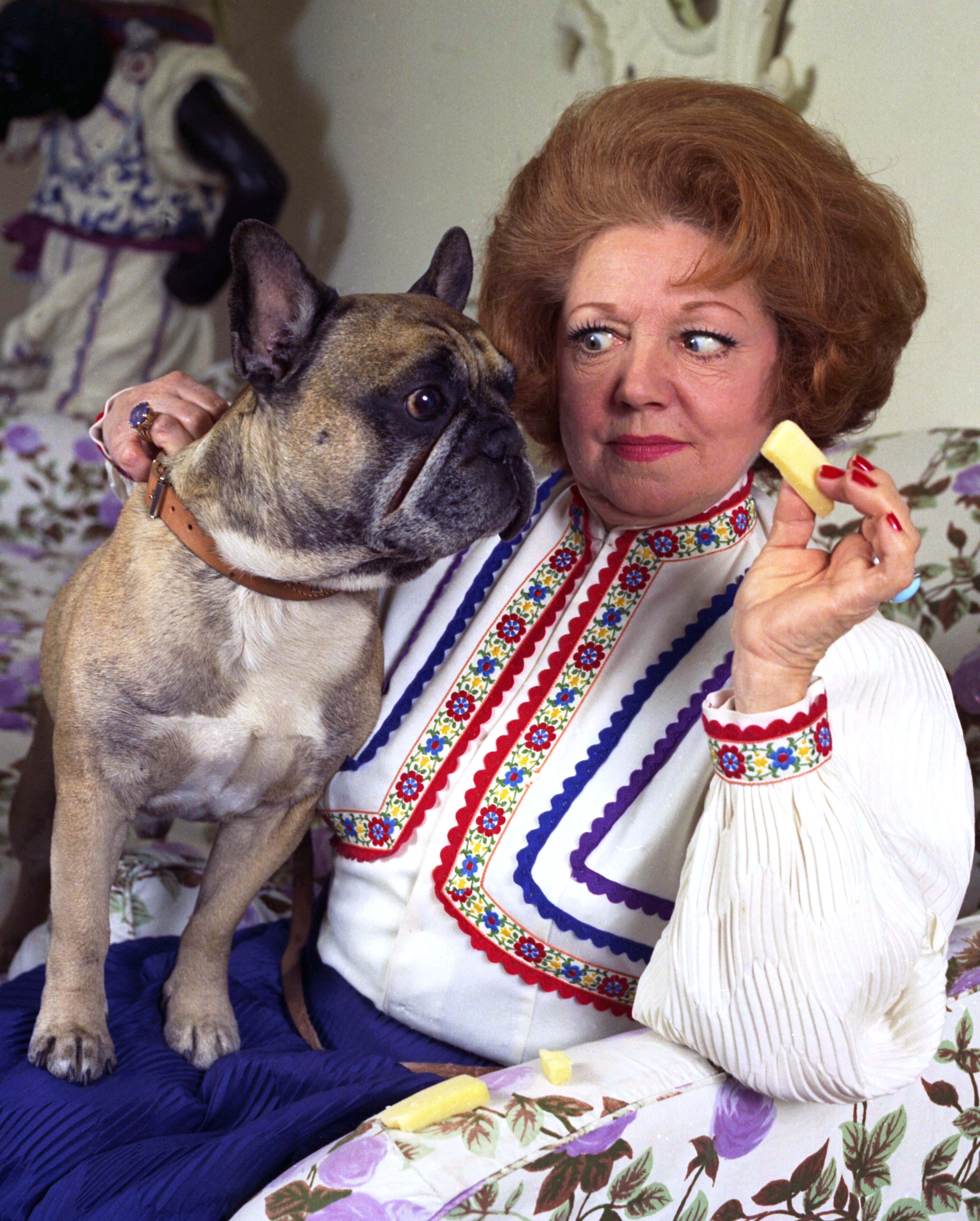 Hermione Baddley